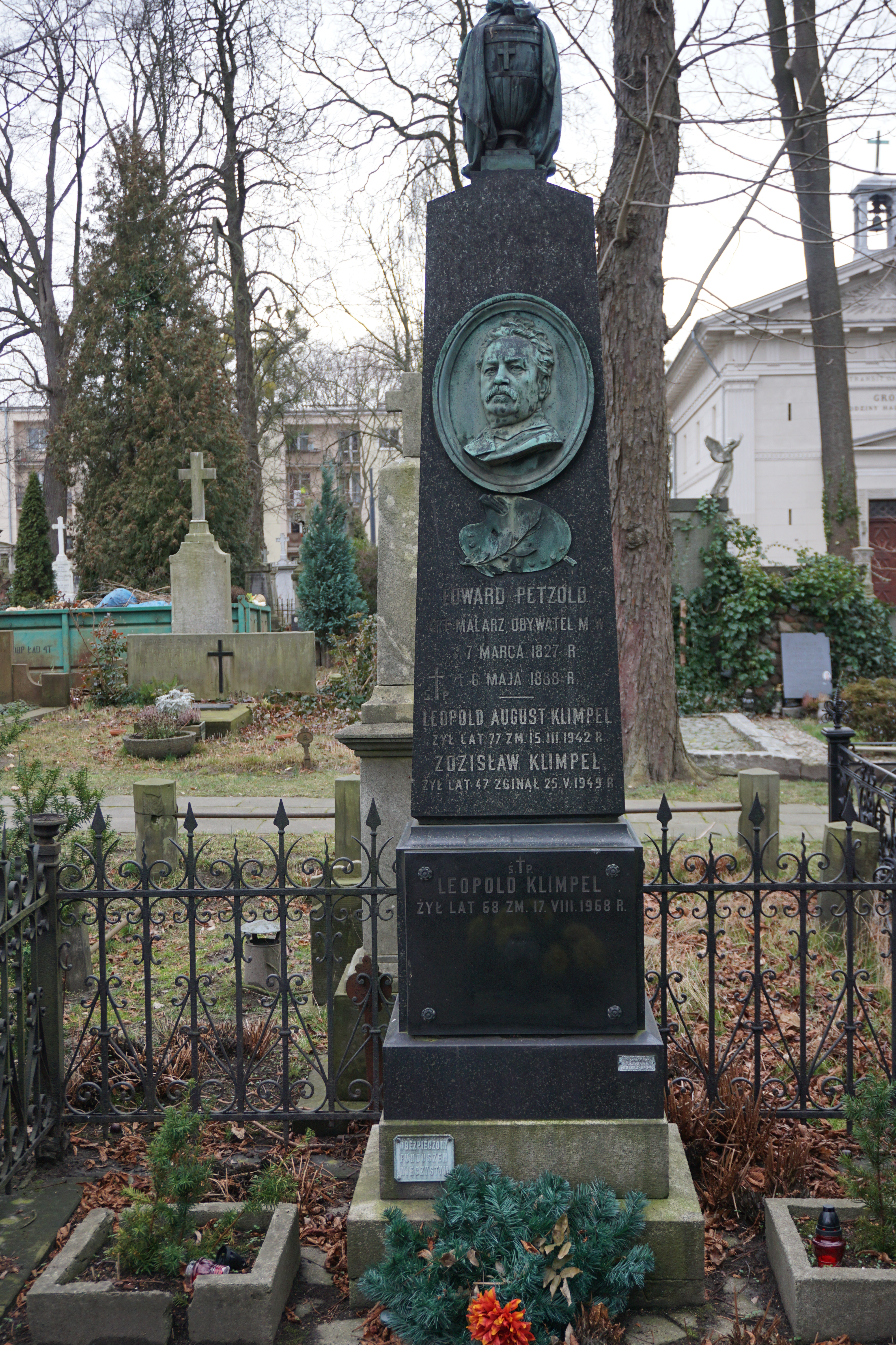 The grave of Edward Petzold at the Evangelical-Augsburg Cemetery in Warsaw (avenue 14, Grave 6)